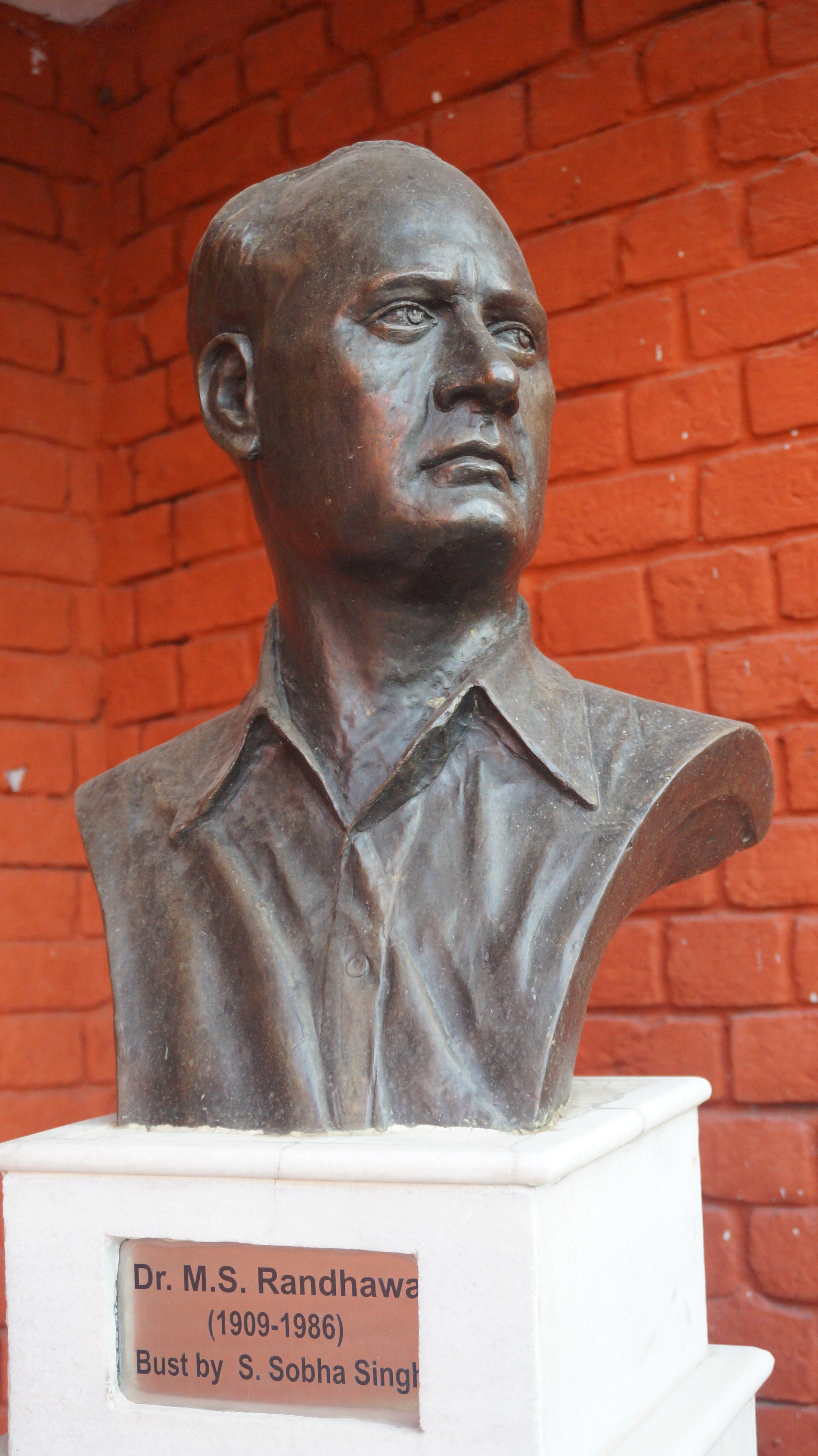 Zakir Hussain Rose Garden, is a botanical garden located in Chandigarh, India and spread over 30 acres (120,000 m2) of land, with 50,000 rose-bushes of 1600 different species. Named after India's former president, Zakir Hussain and created in 1967 under the guidance of Dr M.S. Randhawa, Chandigarh's first chief commissioner, the garden has the distinction of being Asia's largest. The garden has not only roses, but also trees of medicinal value. Some of the medicinal plants that can be spotted here are bel, bahera, harar, camphor and yellow gulmohar. The rose plants have been planted in carved-out lawns and flower beds. (Source: Wikipedia)